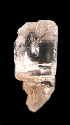 Petalite Locality: Paprok, Nuristan Province (Nurestan; Nooristan), Afghanistan (Locality at ) Size: small cabinet, 7.3 x 2.9 x 2.4 cm Petalite We have here a totally transparent and lustrous, colorless, gem crystal of petalite from the pegmatites of Afghanistan. It is MUCH MORE GEMMY AND BRIGHT in person...so clear it is hard to photo accurately because all the veils are magnified and refracted. The display face is intact, although there is some contact damage to the back of the termination (hence the low price - otherwise it would be triple or more for a large crystal of such quality!). True, the bottom portion, especially in the back, has been etched, but NOT so much as usual and it remains a sharp crystal in stead of an etched-out jumble as so many are, from this region. The crystal is so large and so sharp for the species!